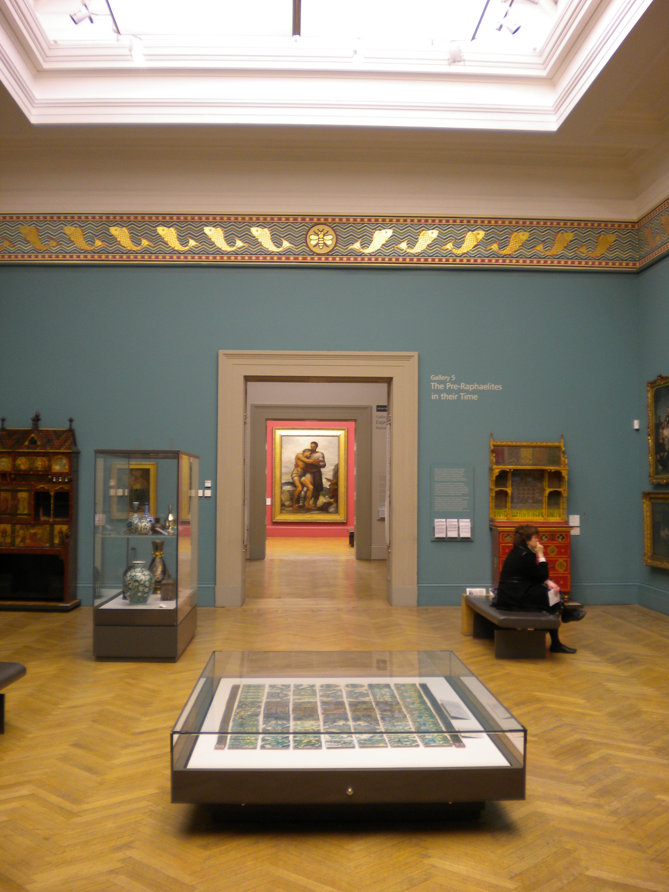 The Good Samaritan by G F Watts displayed at Manchester Art Gallery, England.